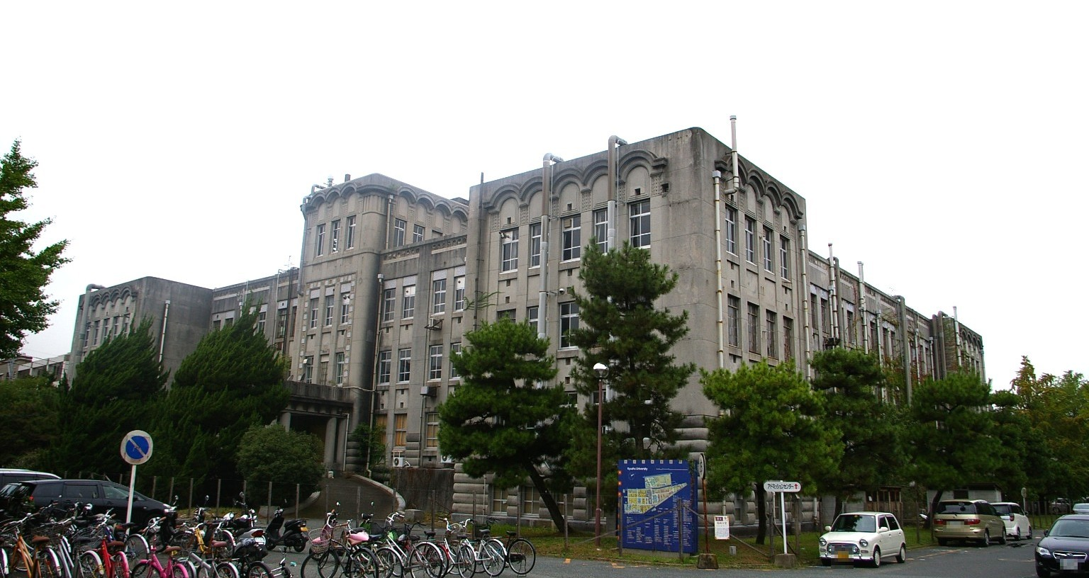 selfmade